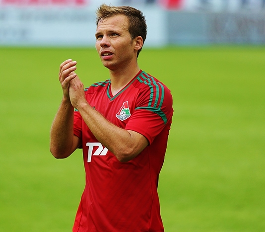 Roman Shishkin